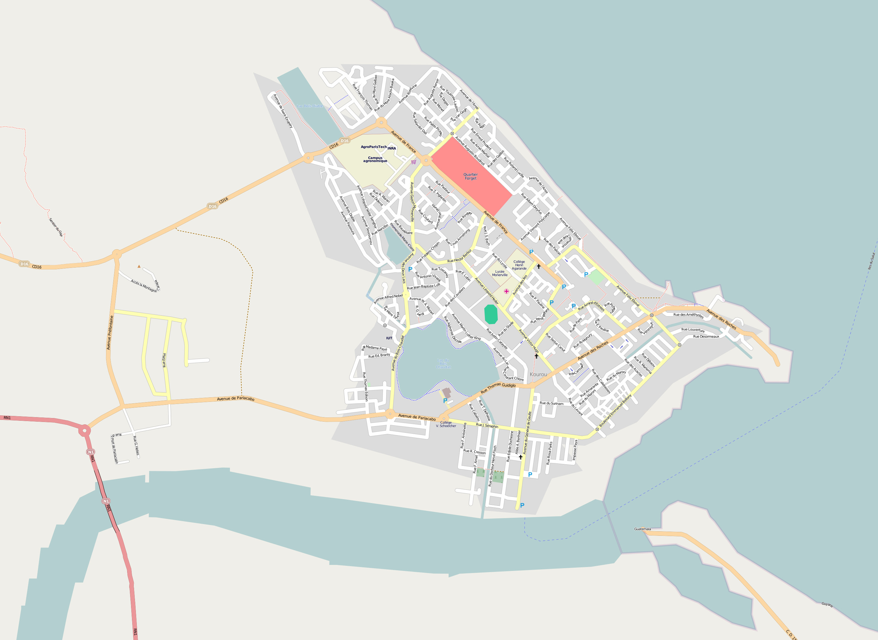 Map of Kourou.